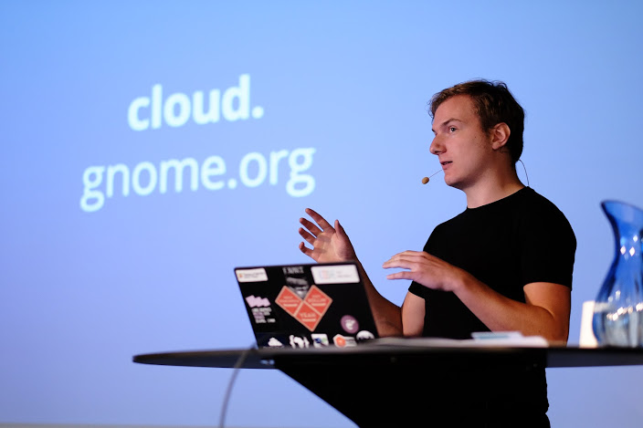 Jan-Christoph Borchardt at GUADEC 2015 on the GNOME and ownCloud relationship.